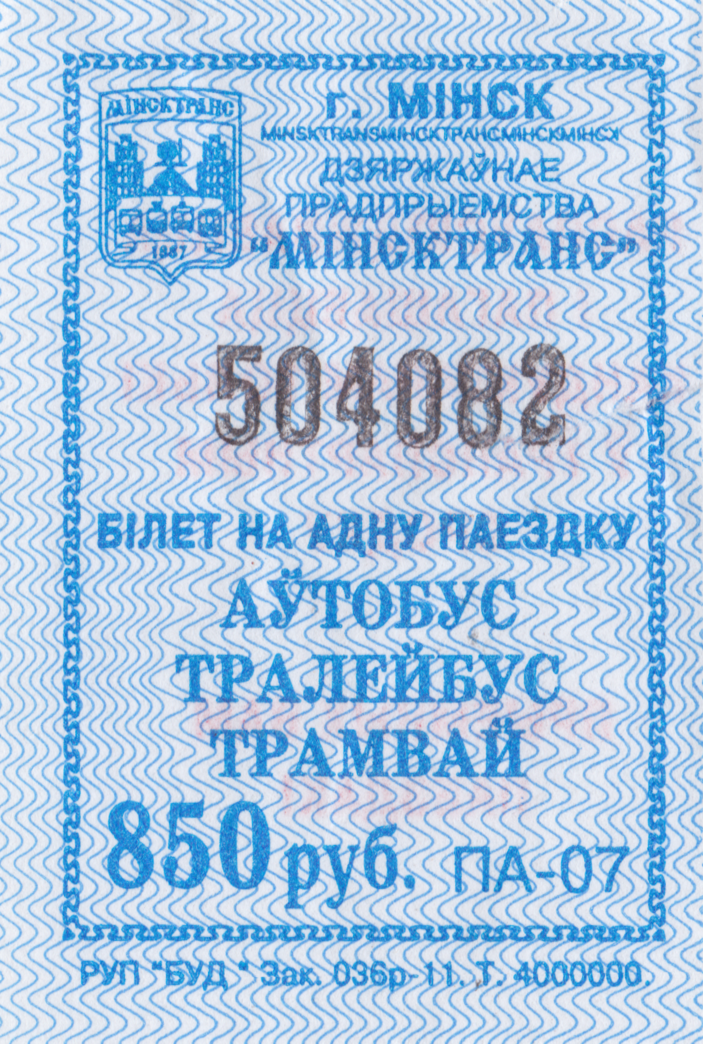 New public transport tickets in Minsk. Беларуская (тарашкевіца): Новыя квіткі грамадзкага транспарту ў Менску.